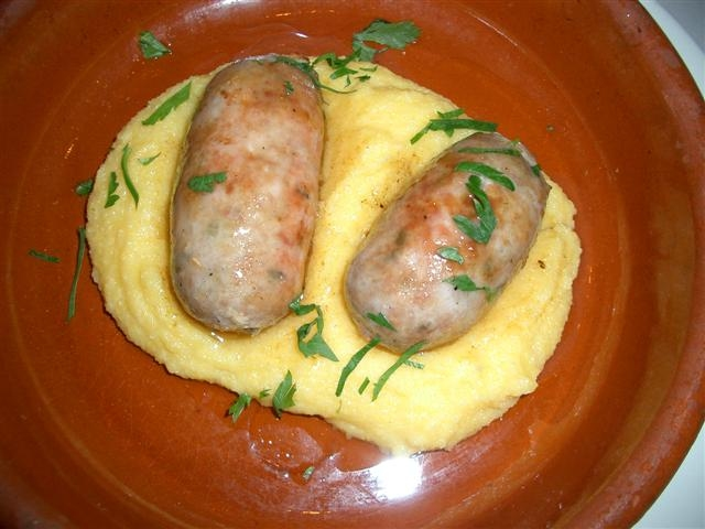 Polenta with sausagesSausages and Polenta - Termini